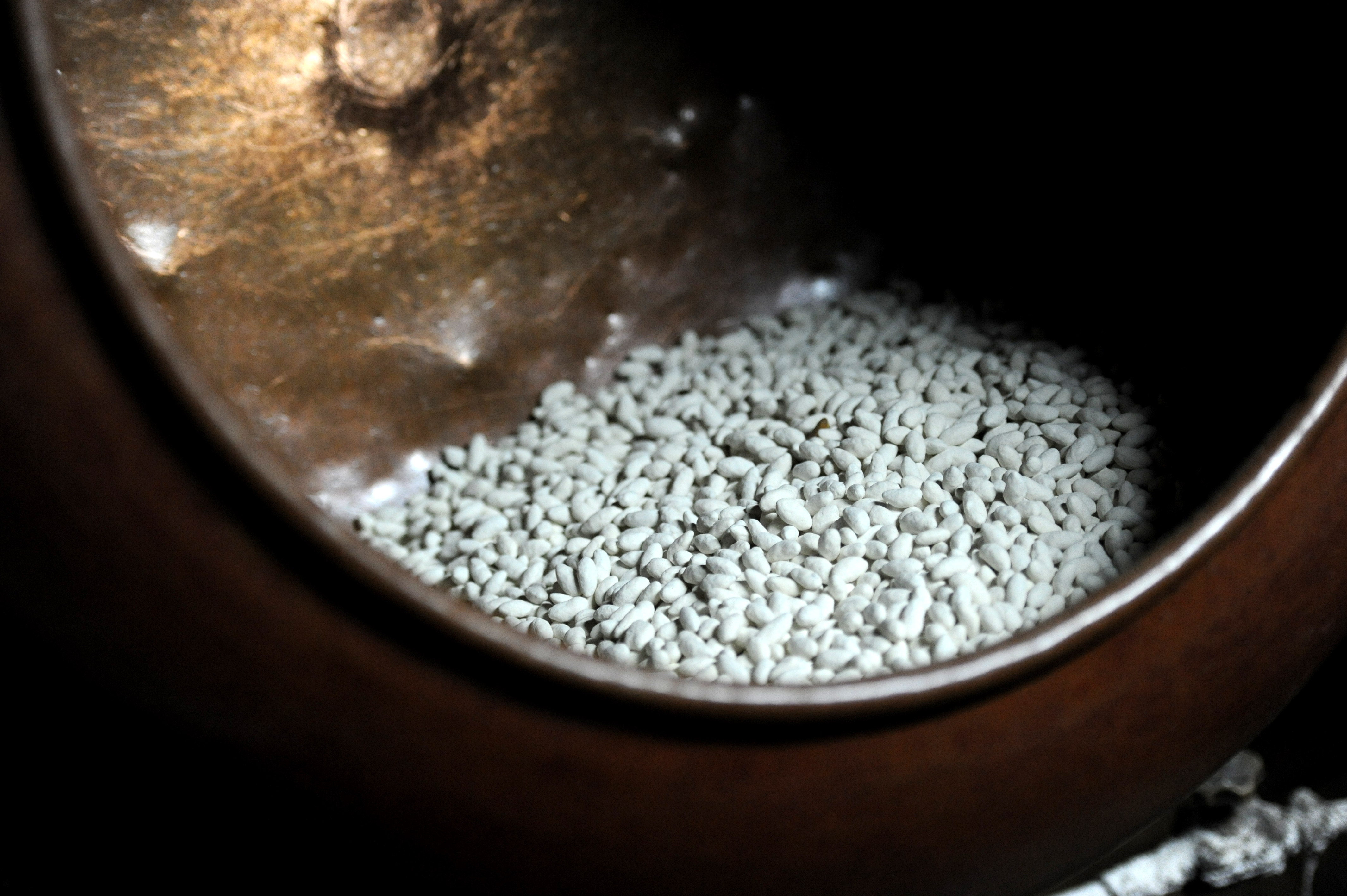 Candy being made in a giant pot at a candy factory in Nablus, West Bank